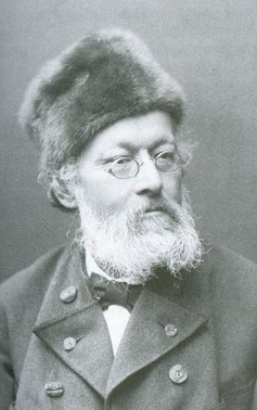 Karl Leopold Theodor Liebe (11 February 1828 – 5 June 1894), German geologist and ornithologist. On 7 June 1886 he sent this photograph to the Leopoldina for their portrait gallery.